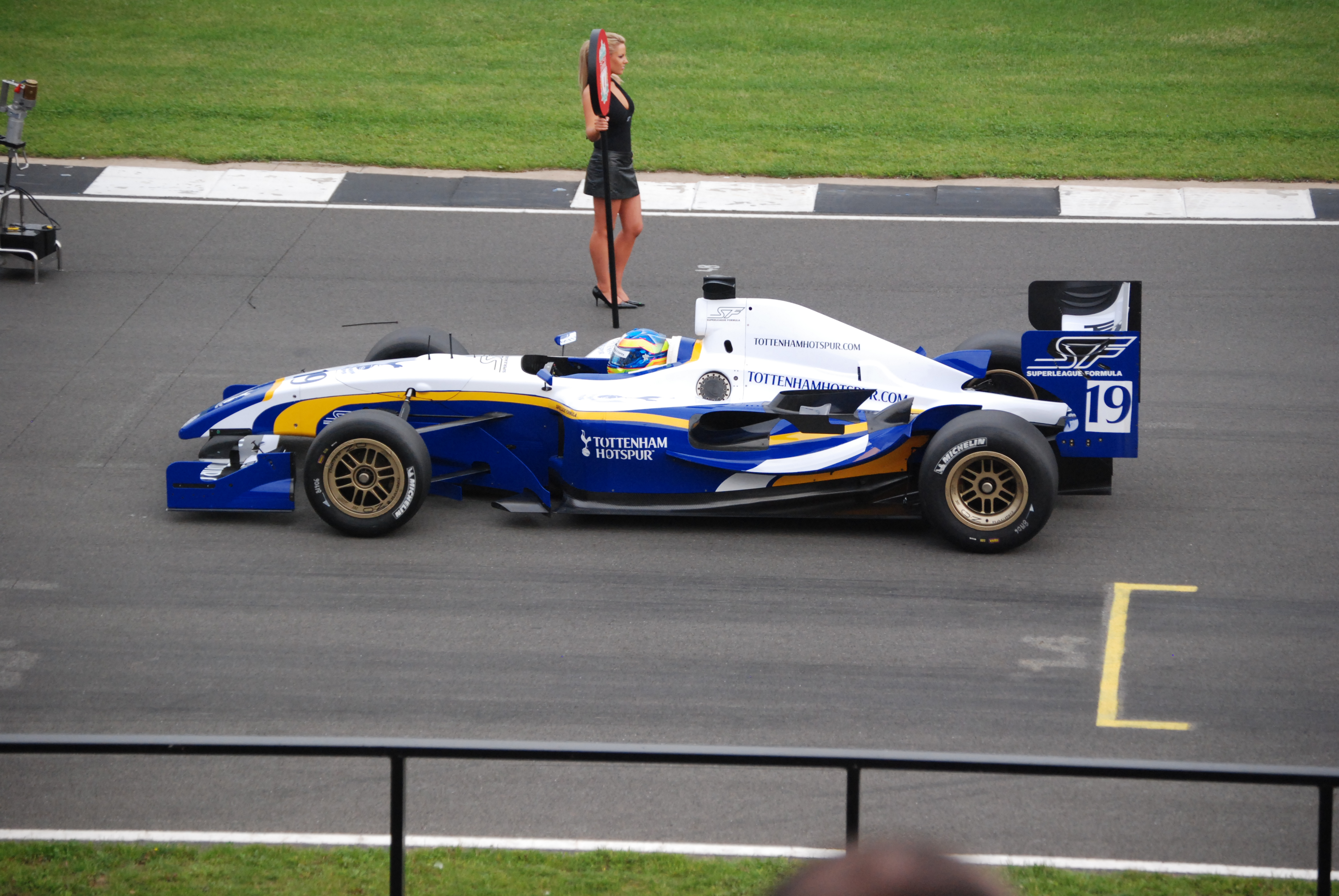 Superleague Formula 2008 Round 1 Donnington